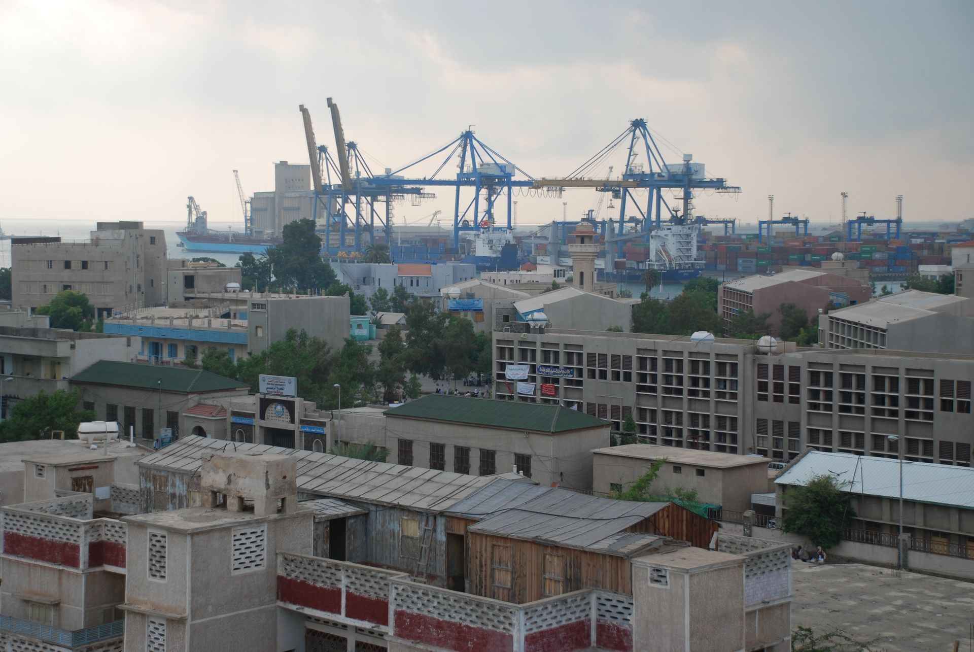 Port Sudan, from town center towards east